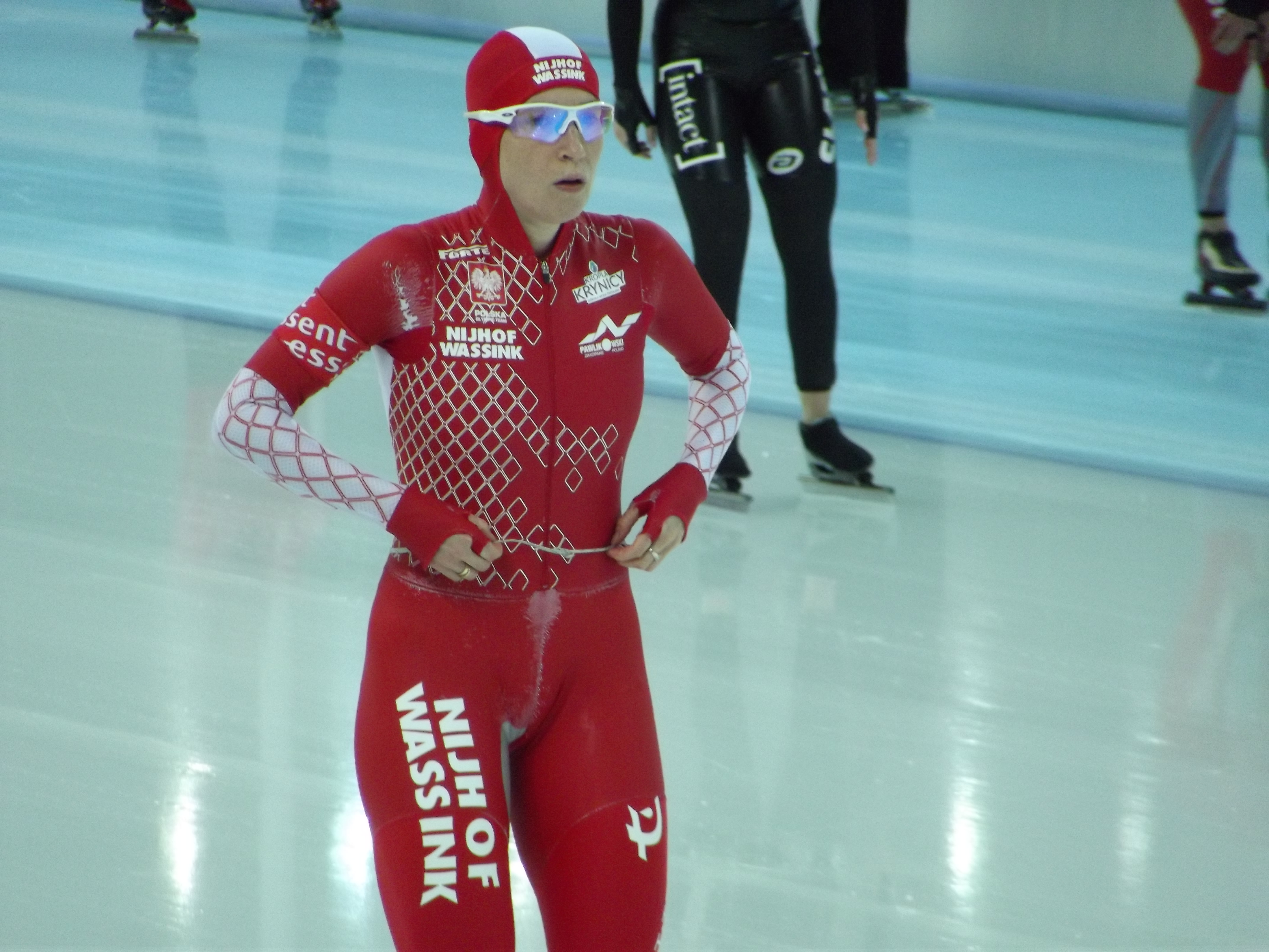 2013 World Single Distance Speed Skating Championships